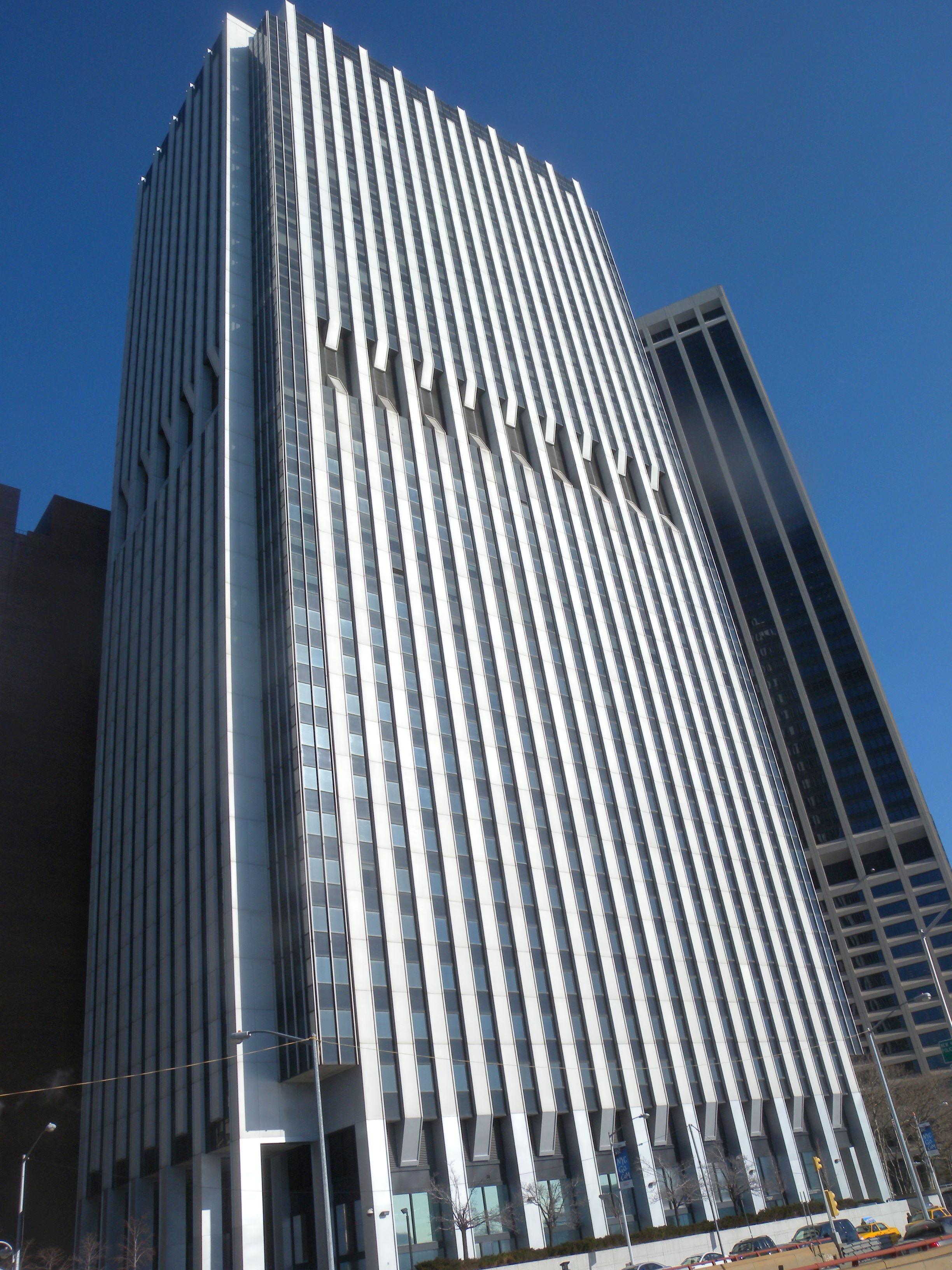 Looking northeast across Broad Street and FDR Drive at 2 New York Plaza on a sunny morning.